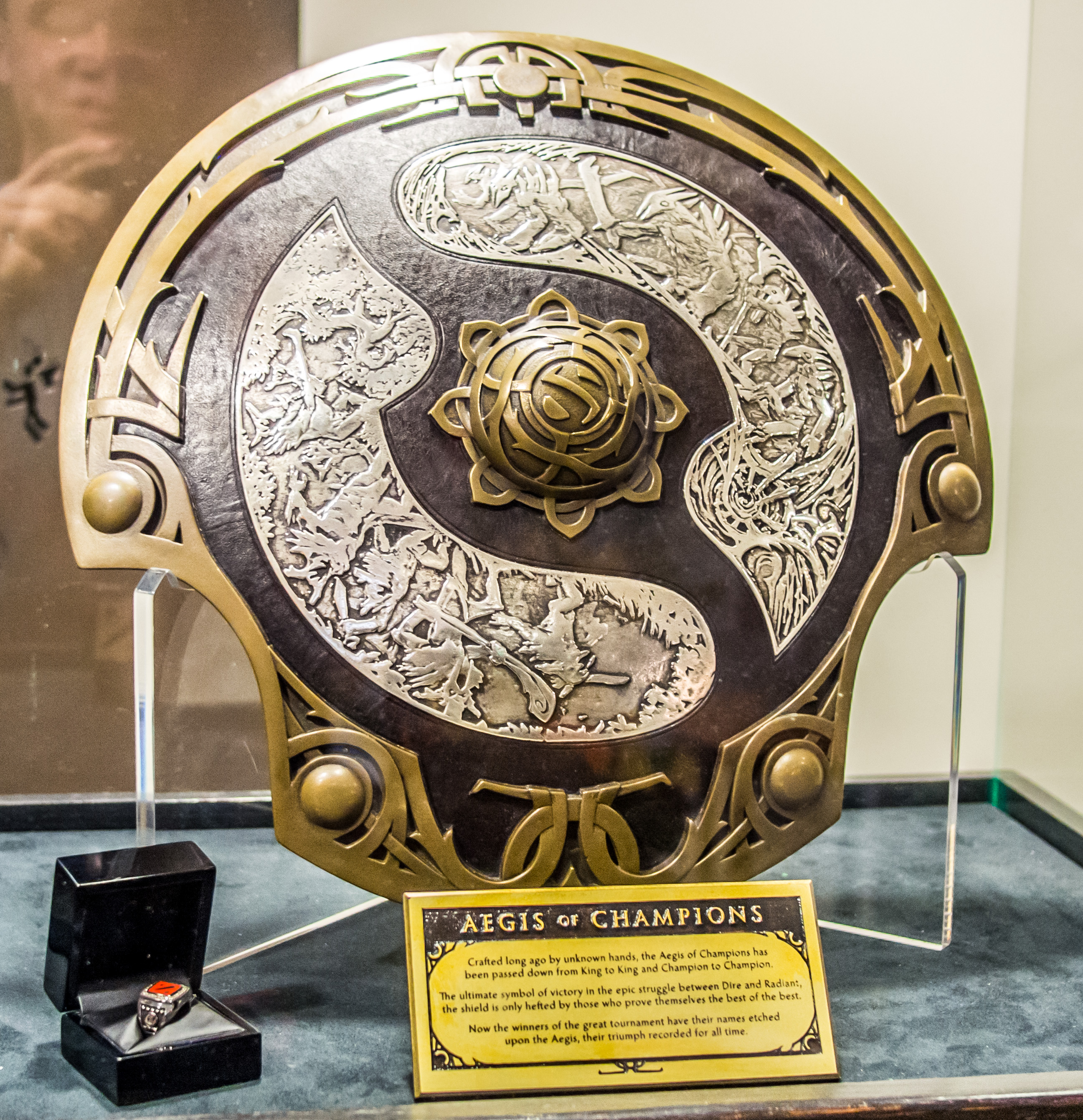 In Valve office